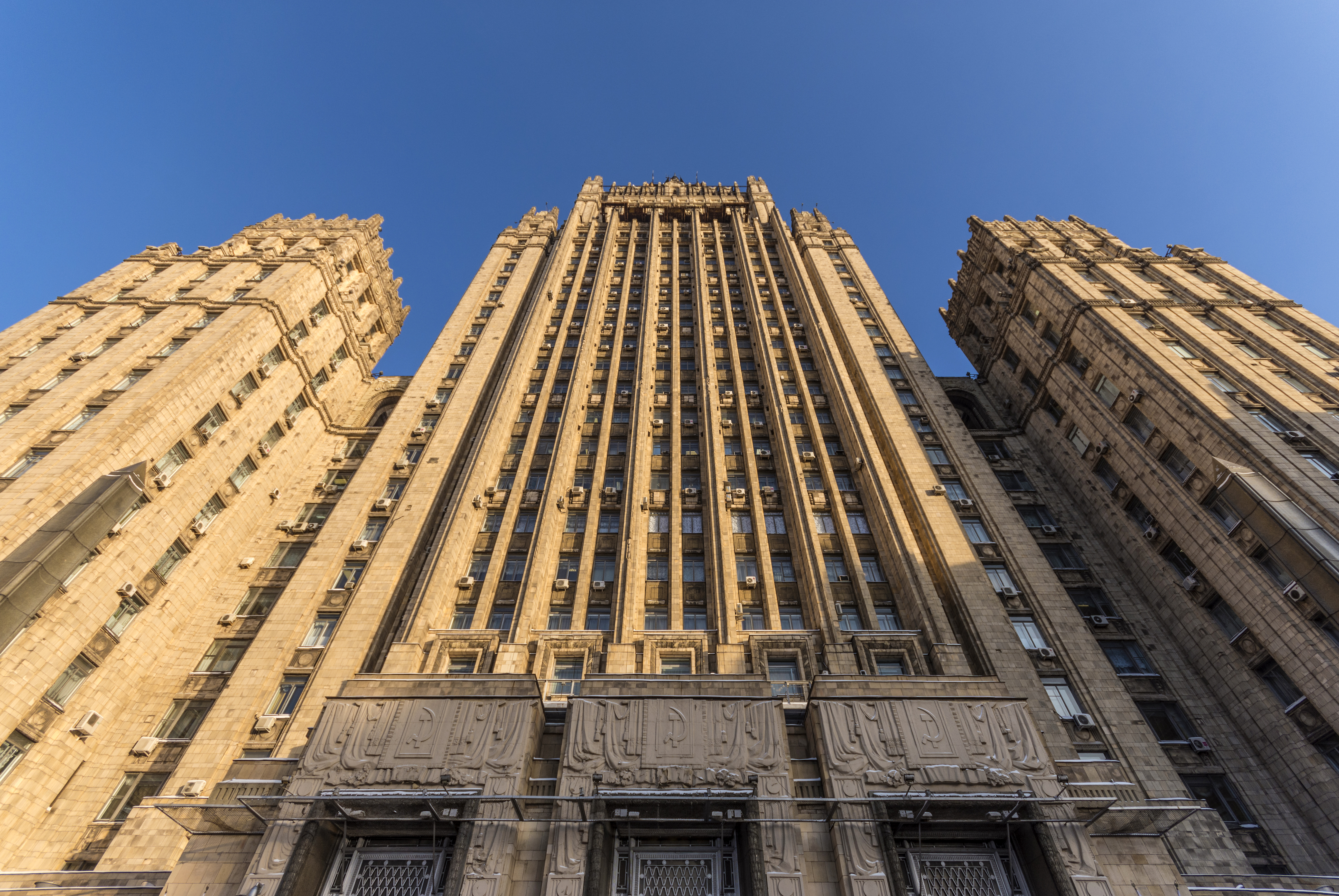 Ministry of Foreign Affairs of Russia Building in Moscow